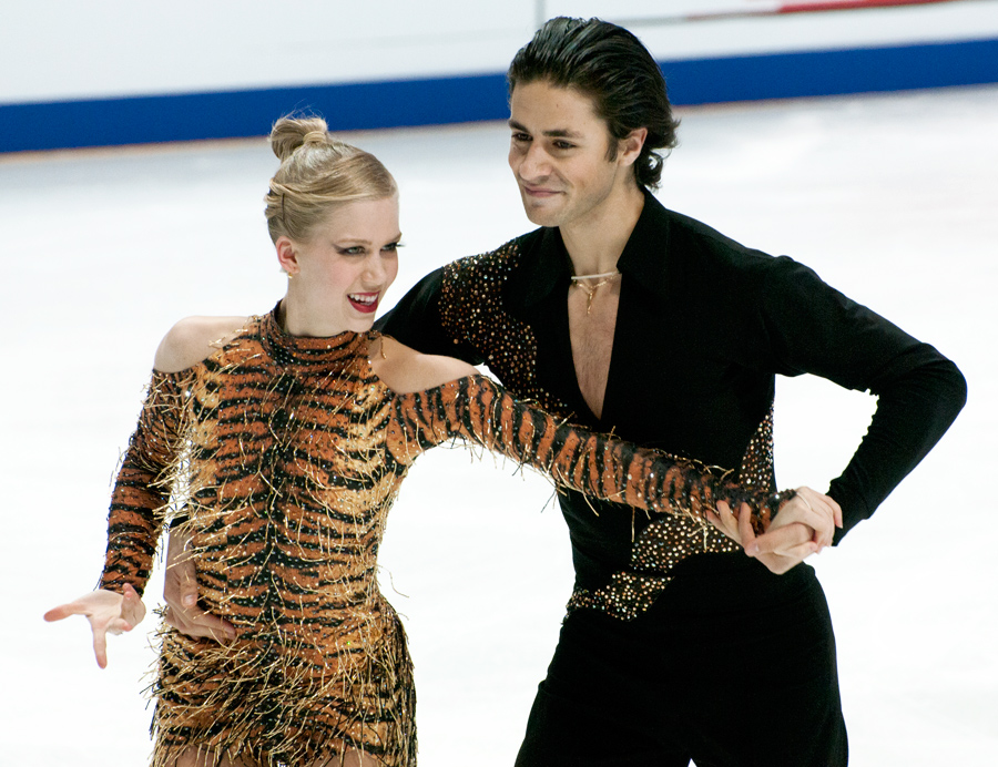 2011 Cup of Russia, short program.